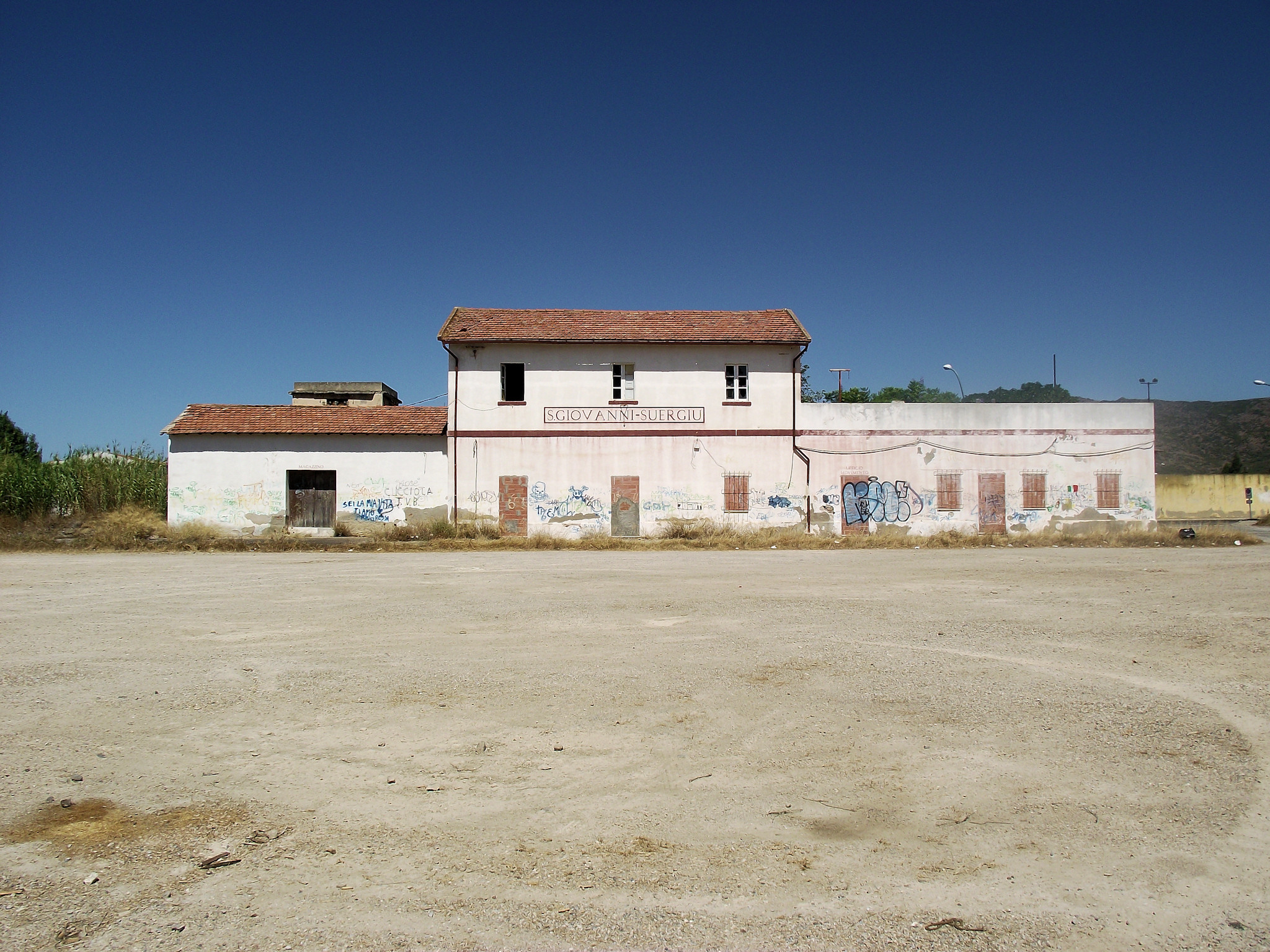 The former Ferrovie Meridionali Sarde's station of San Giovanni Suergiu, in Sardinia, Italy